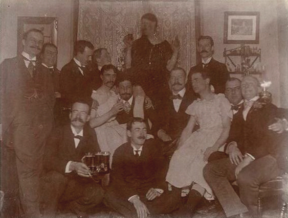 A group of gay men in a private home in Portland, Oregon. The photo was taken by a studio photographer. Three of the men are in drag and pose provocatively.